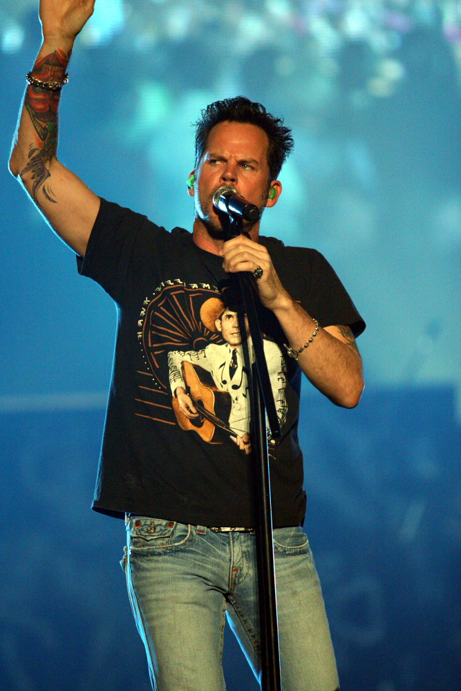 American country musician Gary Allan.